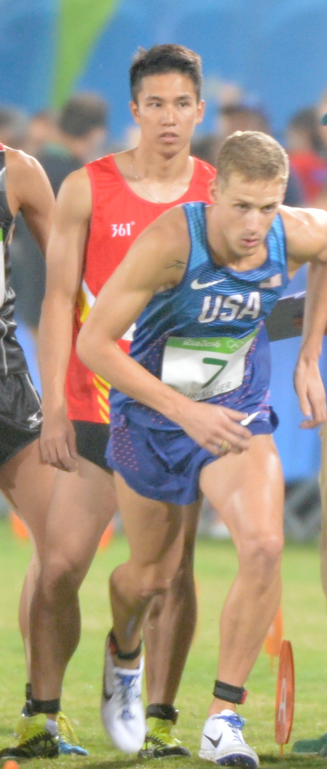 Nathan Schrimsher (in blue, at the fore) and Guo Jianli (in red, at the back) Men's Modern Pentathlon event Aug. 20 at the Rio Olympic Games in Rio de Janeiro. U.S. Army photo by Tim Hipps, IMCOM Public Affairs #SoldierOlympians #ArmyOlympians #ArmyTeam #TeamUSA #RoadToRio #ArmyStrong #GoArmy #WCAP #ArmyWCAP